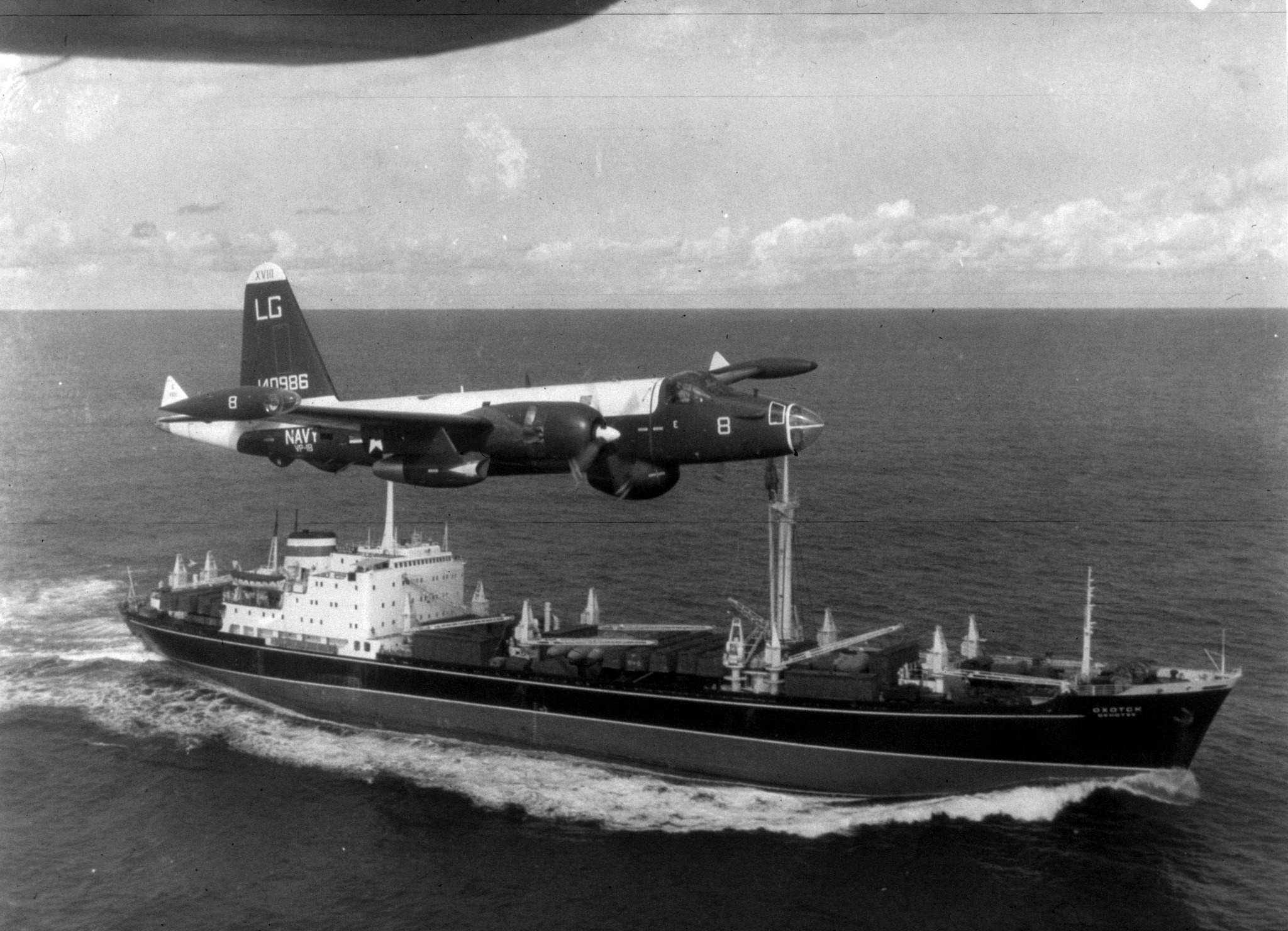 A U.S. Navy Lockheed SP-2H Neptune (BuNo 140986) of patrol squadron VP-18 Flying Phantoms flying over a Soviet freighter.The freighter is most probably the Okhotsk, which left the port at Nuevita carrying 12 IL-28 airplanes on 5 December 1962 ; see [1], [2], [3].